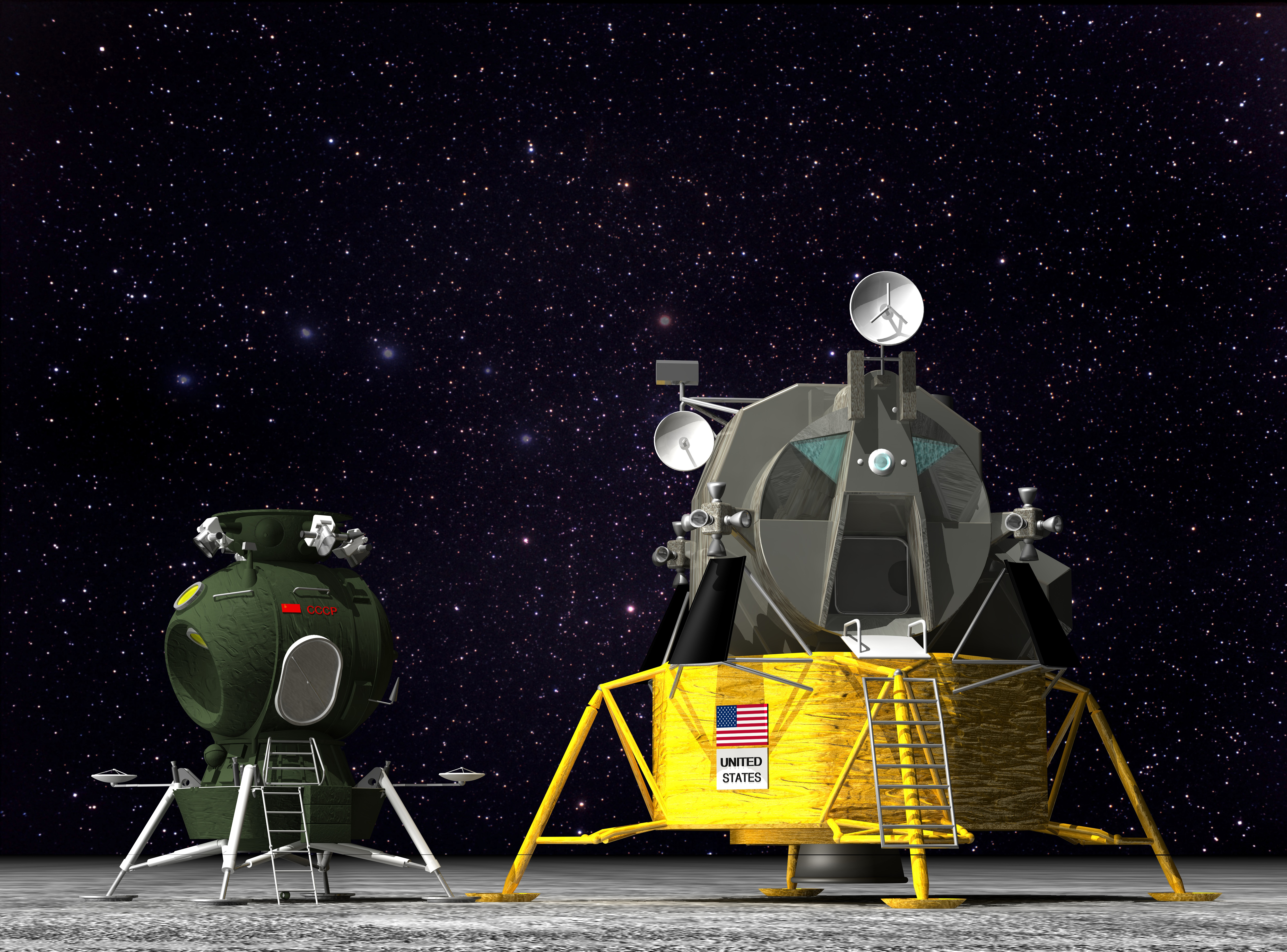 Size comparison of the Soviet and the American Lunar Lander.